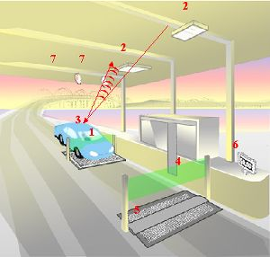 Diagram of FasTrak toll collections system. As the vehicle enters the toll lane, sensors (1) detect the vehicle. The two-antenna configuration (2) reads a transponder (3) mounted on the vehicle's windshield. As the vehicle passes through the exit light curtain (4), it is electronically classified by the treadle (5) based on the number of axles, and the ETC account is charged the proper amount. Feedback is provided to the driver on an electronic sign (6). If the vehicle does not have a transponder, the system classifies it as a violator and cameras (7) take photos of the vehicle and its license plate for processing. If the license plate is registered as belonging to a FasTrak user, the account is debited only the toll charge, and no penalty is charged.